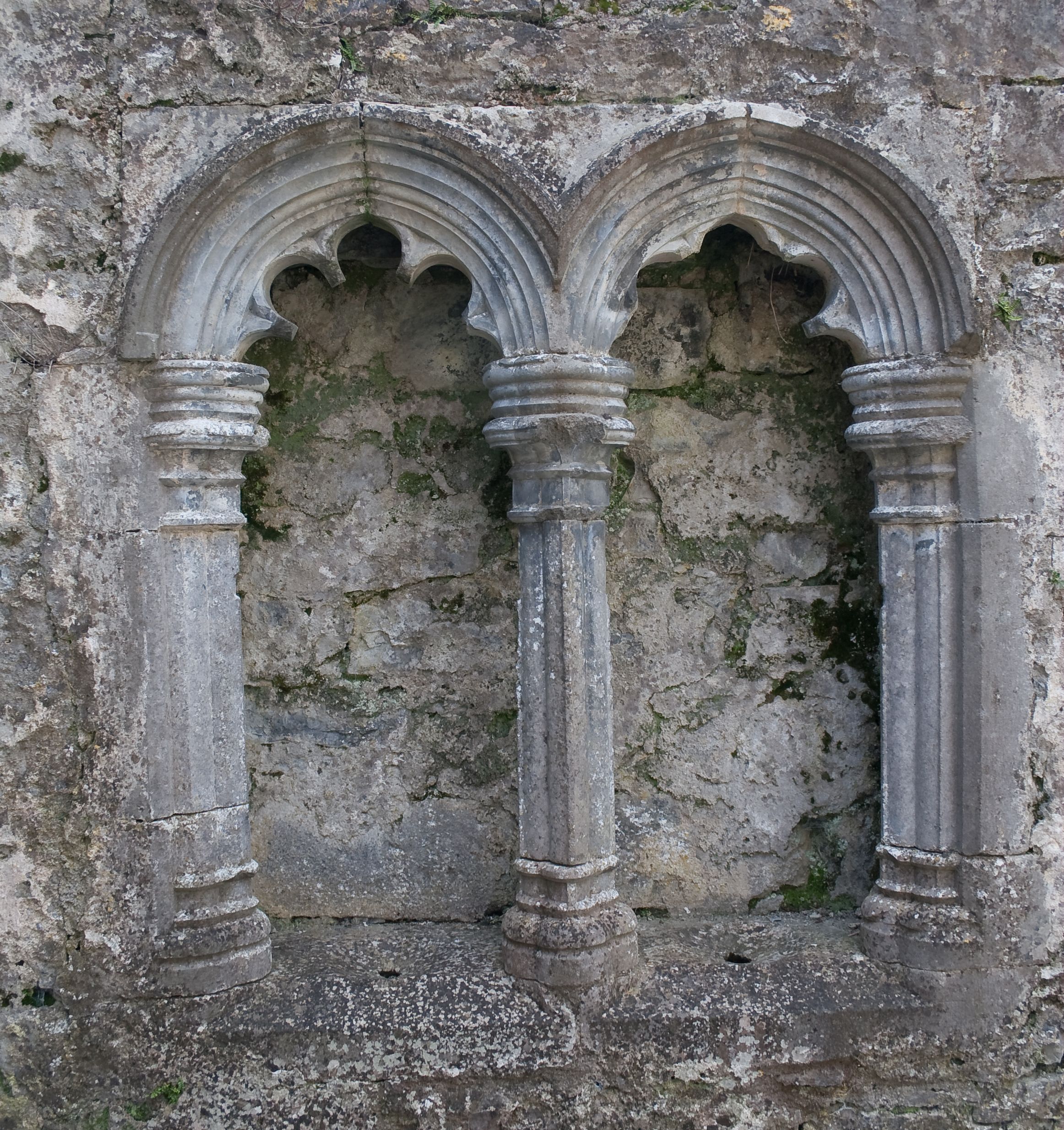 Kilconnell Friary, County Galway, Ireland Early 16th-century double piscina in the south wall of the O'Donellan side chapel.